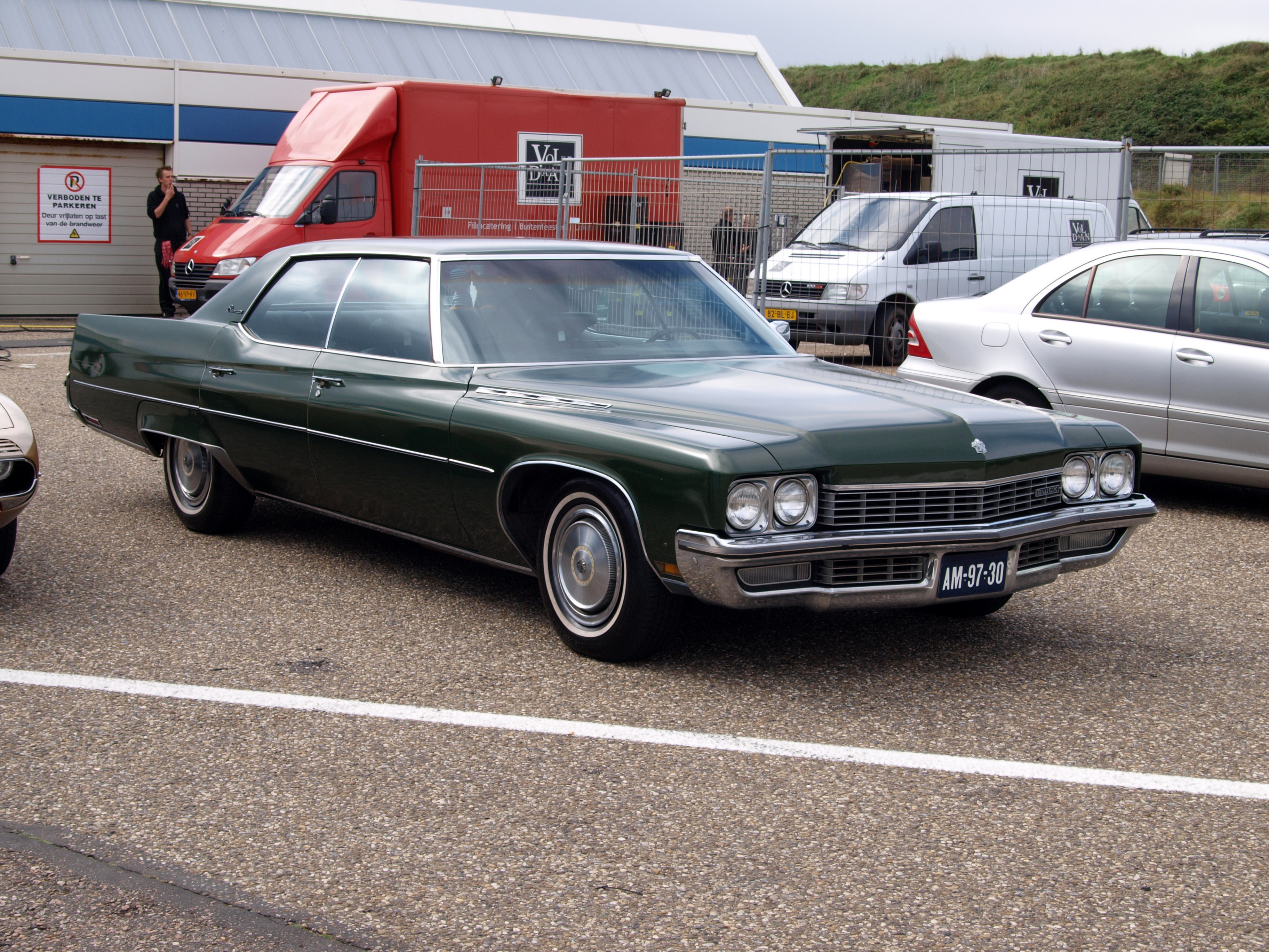 Photographed at the Nationaal Oldtimer Festival Zandvoort 2010, The Netherlands.